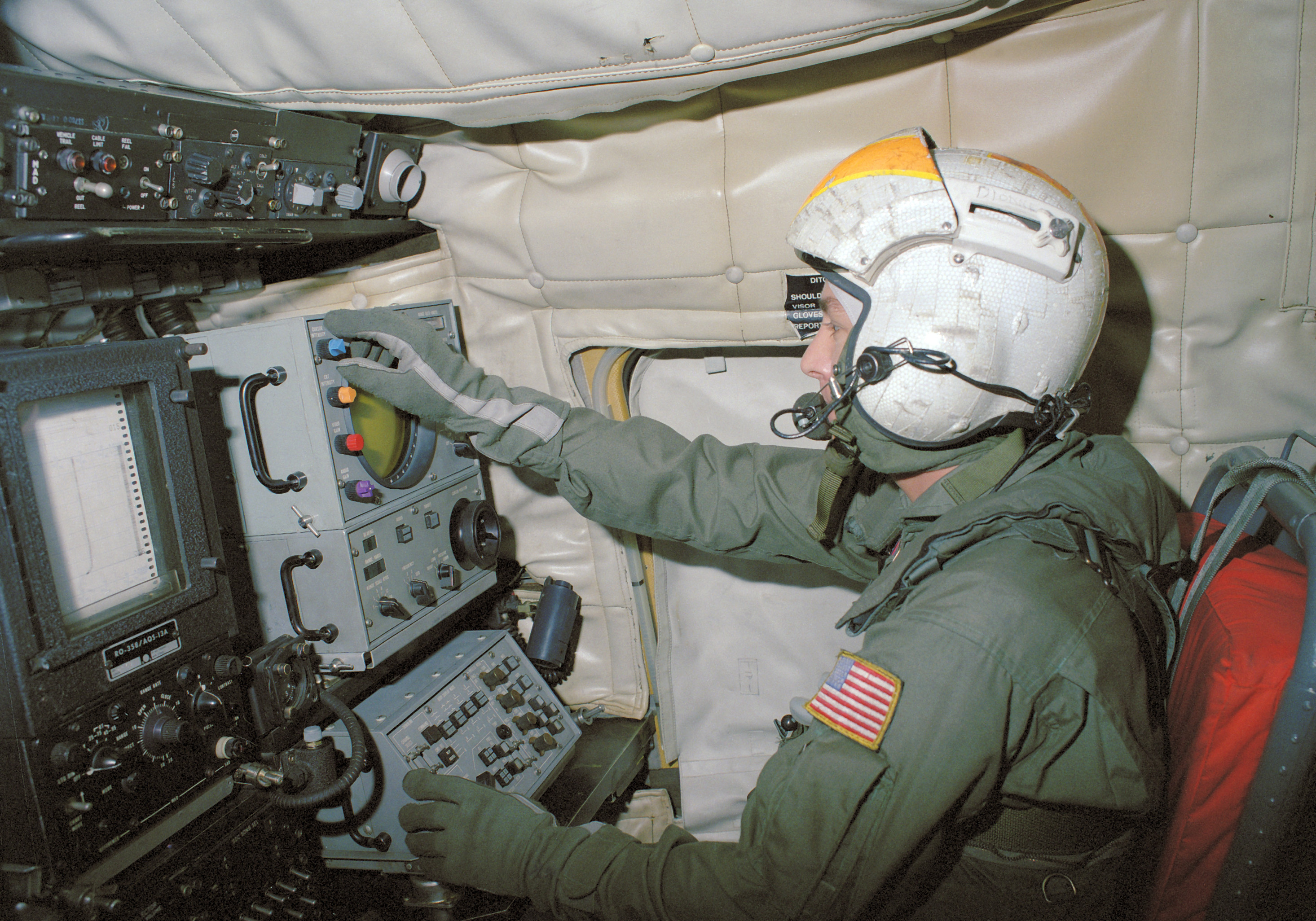 A U.S. Navy aviation anti-submarine warfare operator monitors an AN/AQS-13 dipping sonar control panel inside an Sikorsky SH-3H Sea King helicopter in 1987.